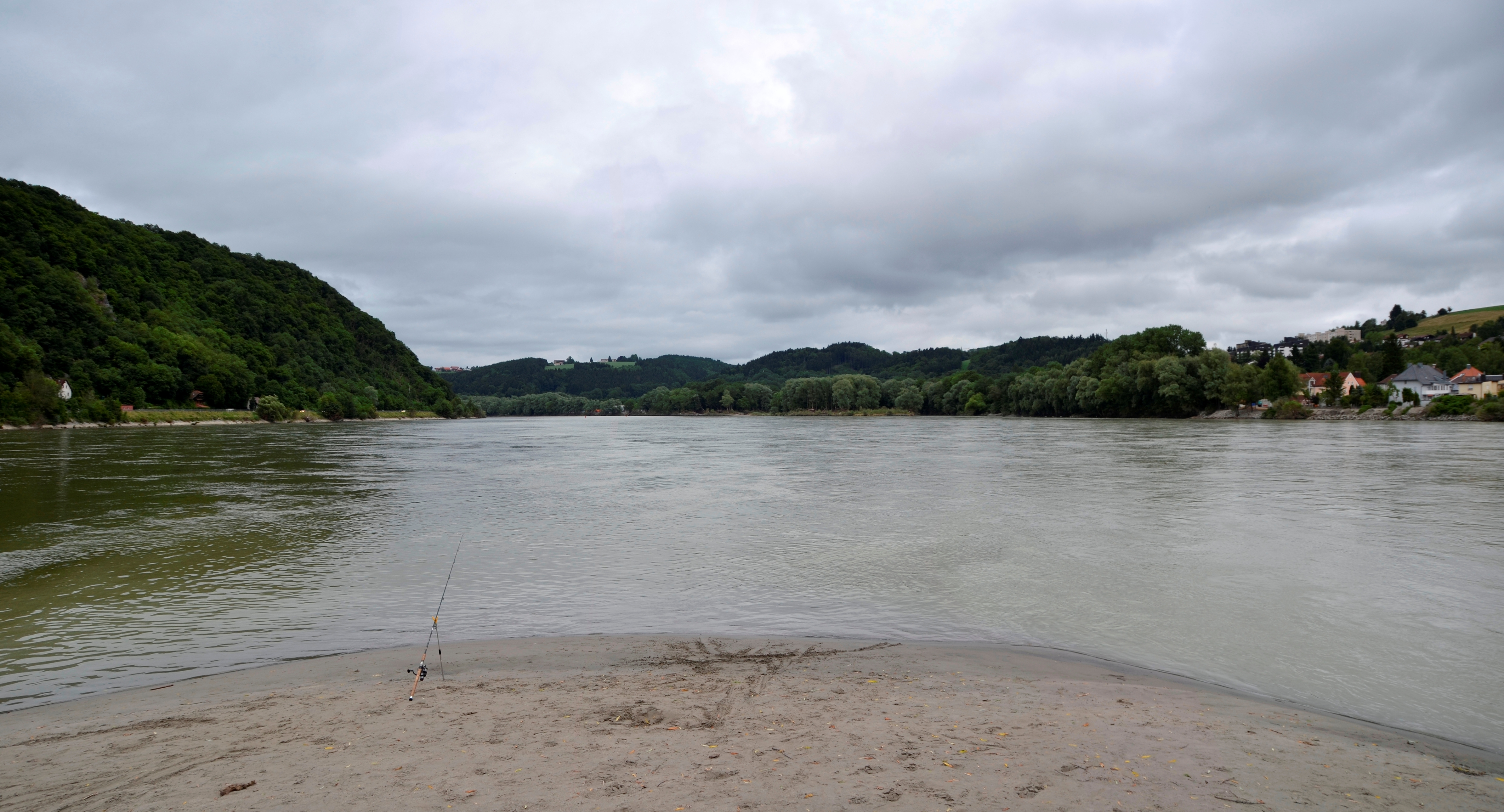 The so called "Ortsspitze" - the confluence of the Rivers Danube and Inn in Passau.